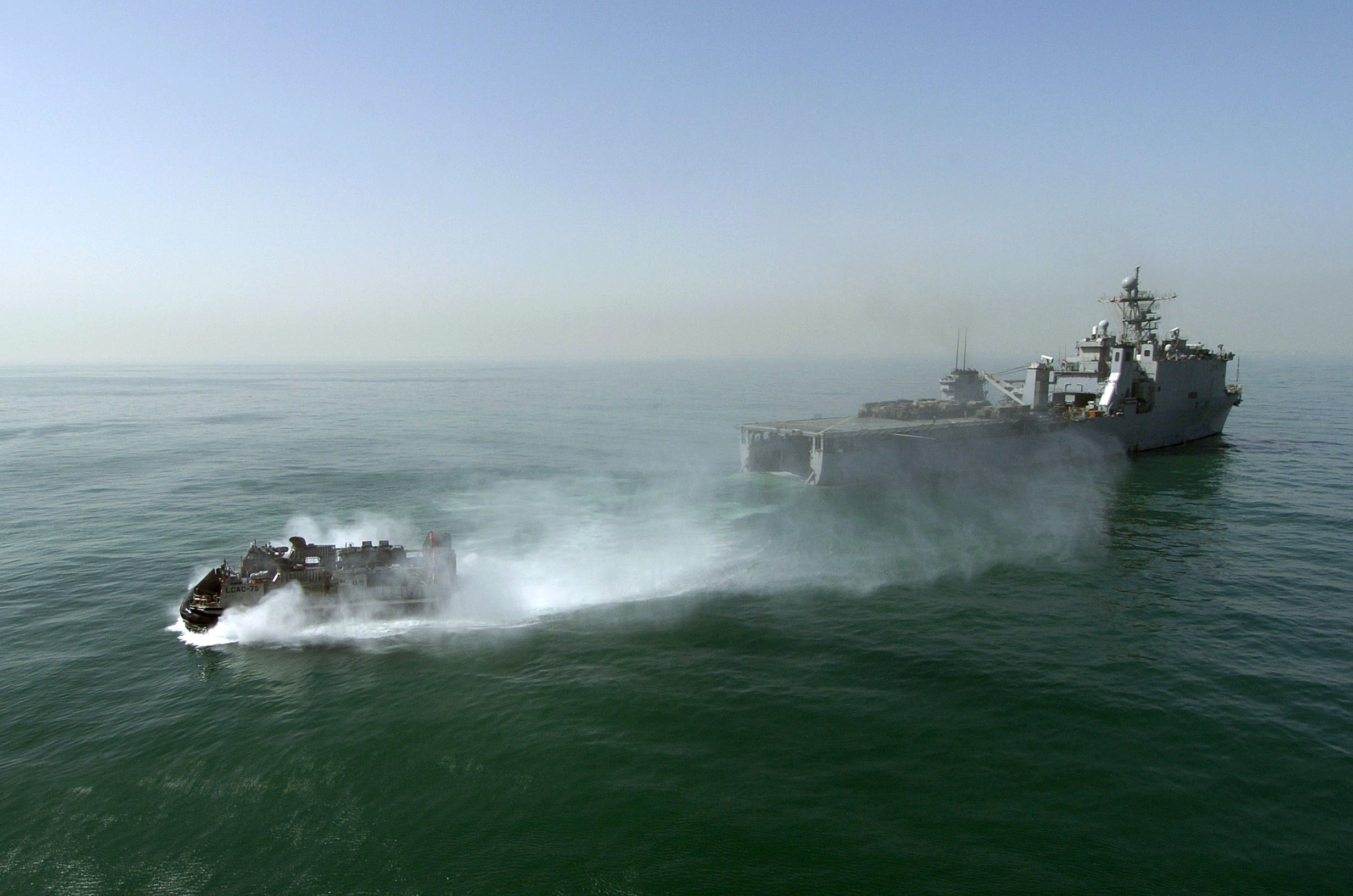 Kuwait Naval Base, Kuwait (Mar. 5, 2005) - A Landing Craft Air Cushion (LCAC) assigned to Assault Craft Unit Five (ACU-5), safely disembarks the well deck of the amphibious dock landing ship USS Harpers Ferry (LSD 49) destined for a Kuwait Naval Base (KNB). Harpers Ferry is part of Expeditionary Strike Group Three (ESG-3) and is currently deployed to the Persian Gulf in support of Operation Iraqi Freedom (OIF). U.S. Navy photo by Photographer's Mate 1st Class Richard J. Brunson (RELEASED)